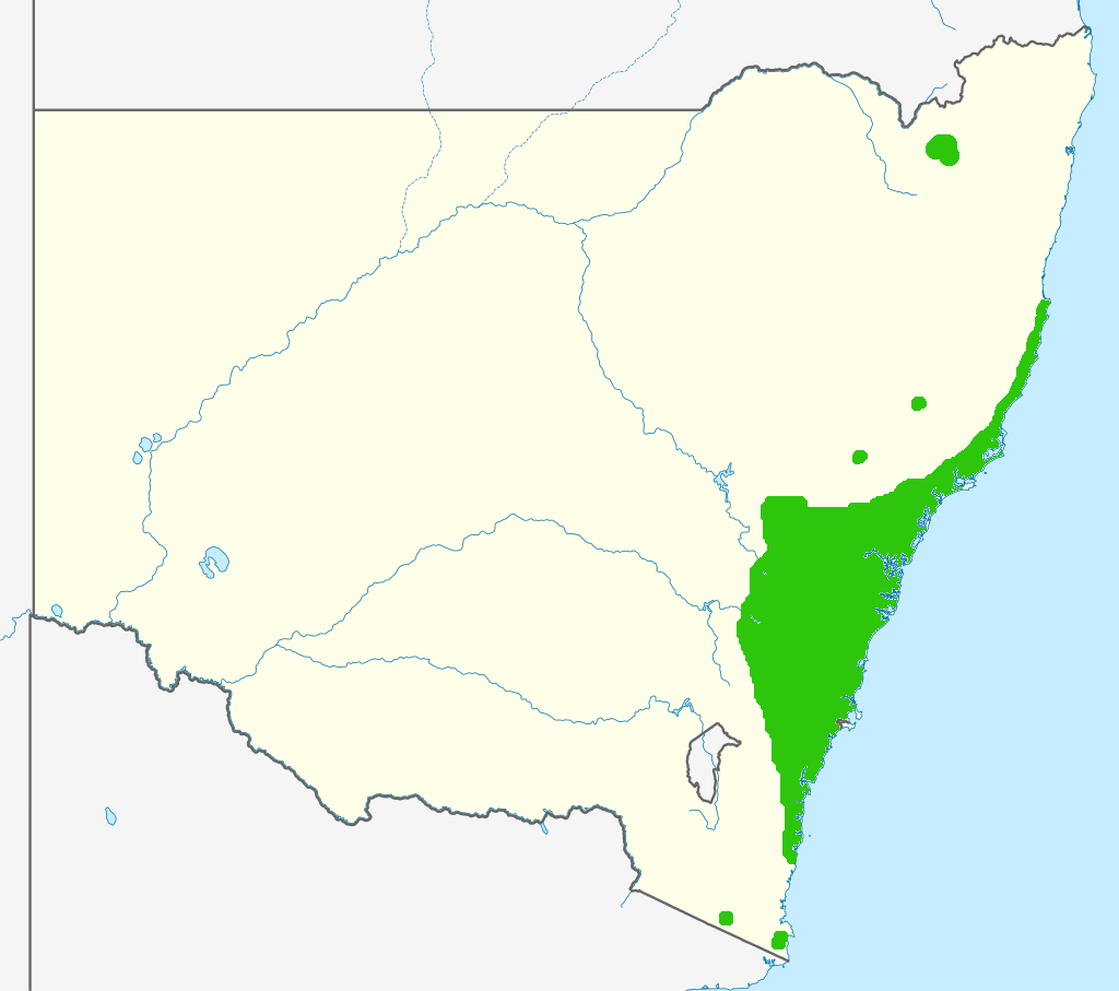 Distribution map of Isopogon anemonifolius (Salisb.) Knight, based on official New South Wales Herbarium records. Original map is File:Australia New South Wales location map blank.svg. Data is from NSW Herbarium Plantnet.